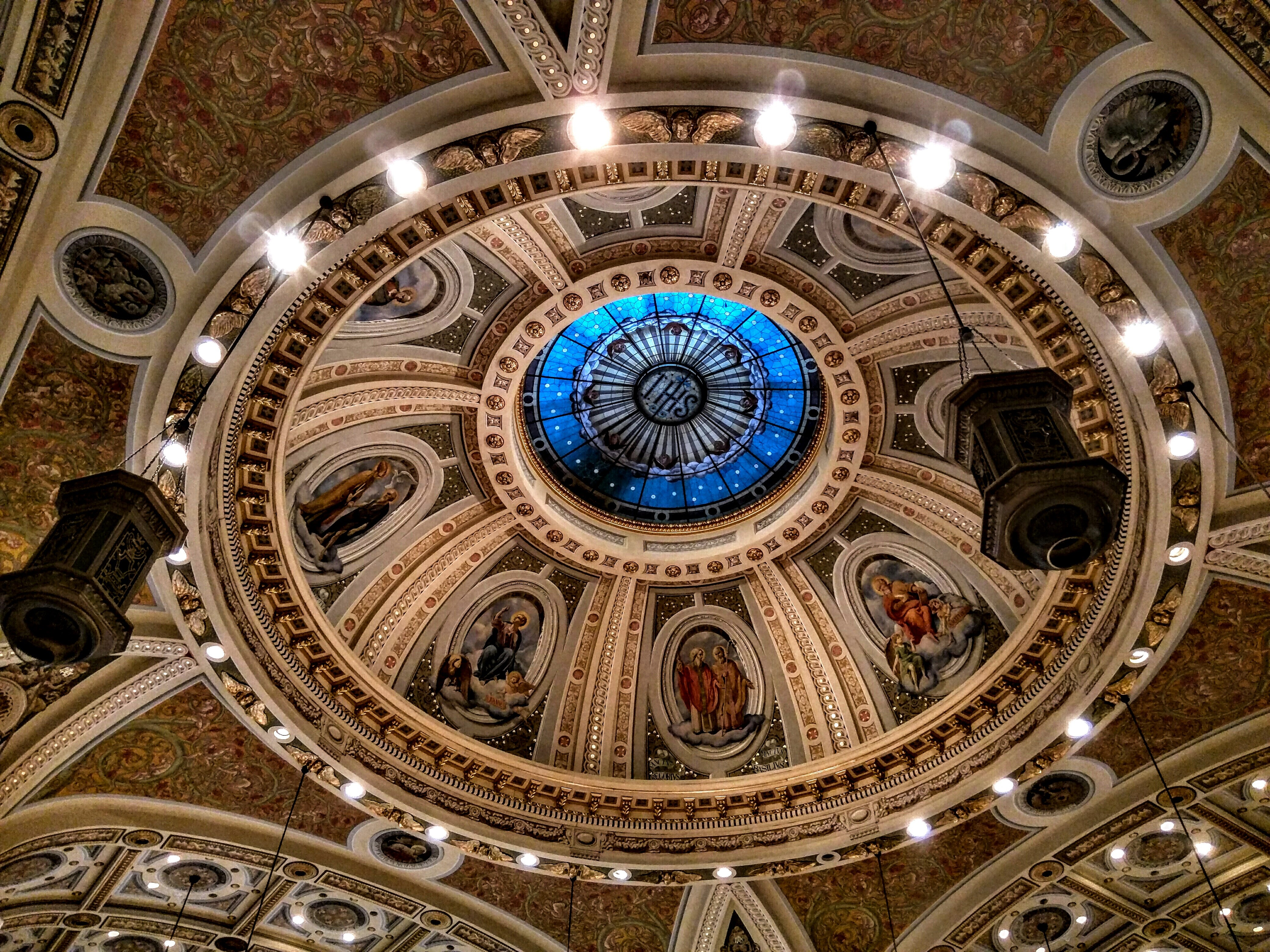 Ceiling, St. Joseph's Basilica